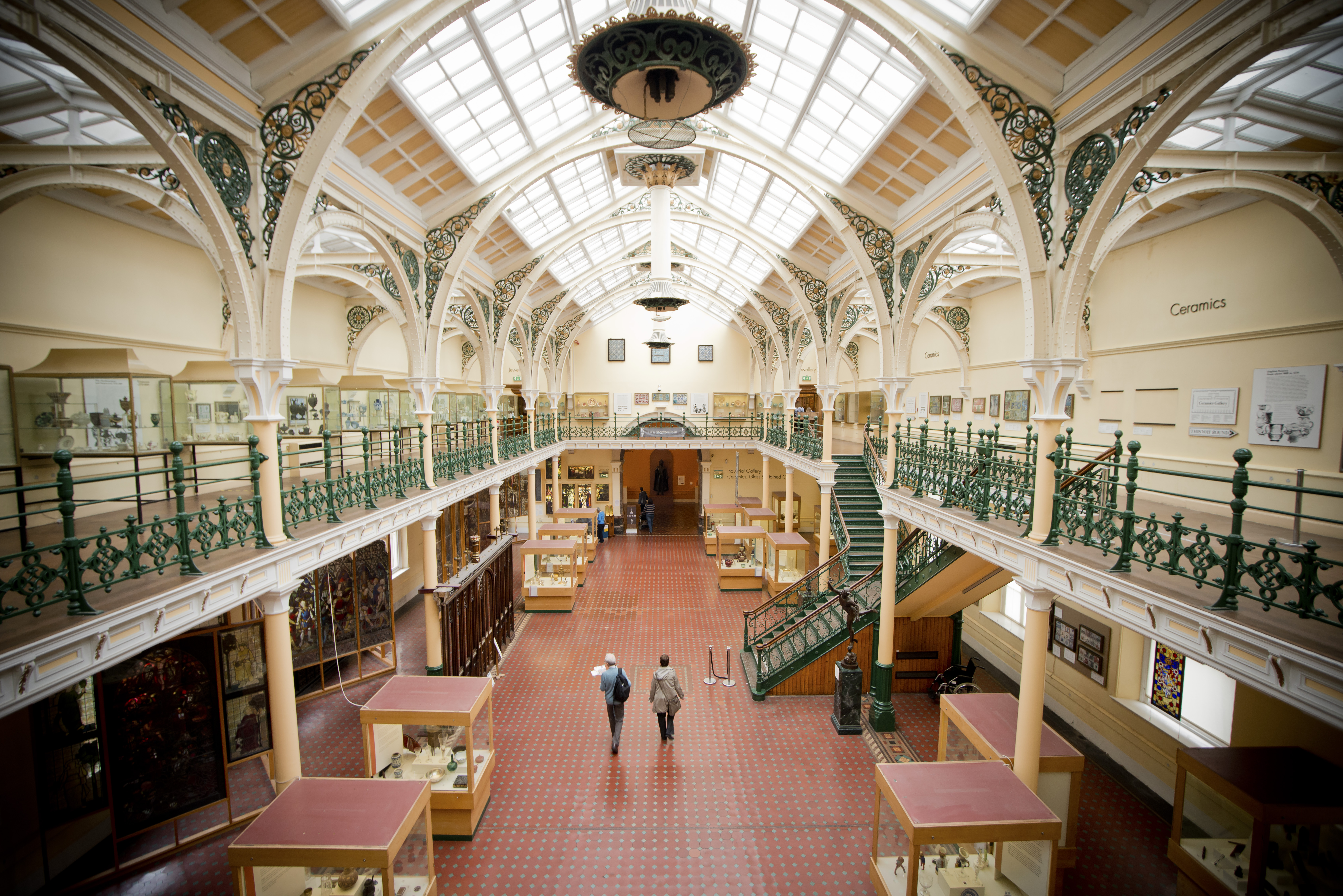 The Industrial Gallery at the Birmingham Museum and Art Gallery, UK